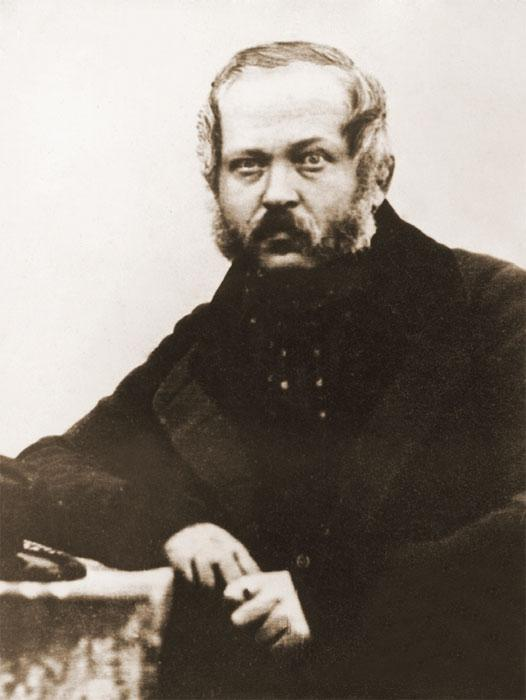 Nilolay Alekseevich Panov